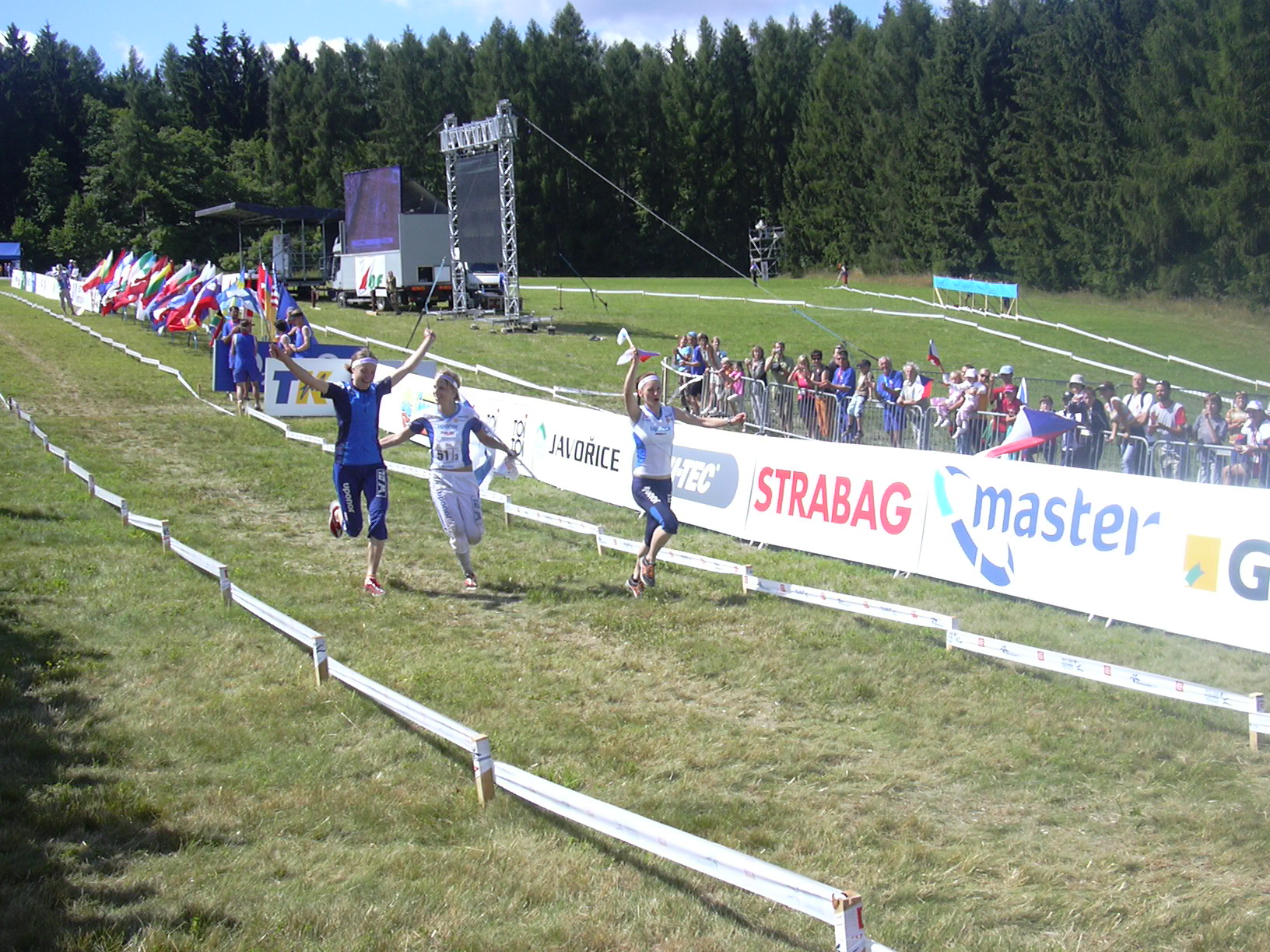 World Orienteering Championships 2008 in Olomouc, Czech Republic. On photo Finland relay = gold medal. Merja Rantanen, Minna Kauppi, Katri Lindeqvist.